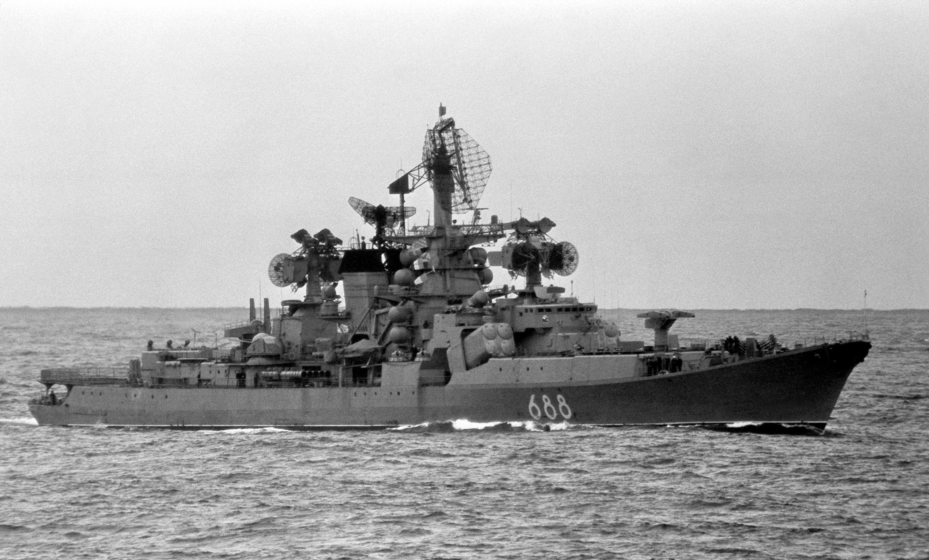 A starboard bow view of the Soviet Kresta-II class guided missile cruiser ADMIRAL YUMASHEV underway.